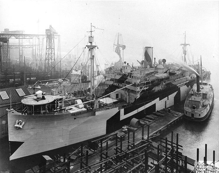 USS Santa Teresa (ID-3804) fitting out at the Cramp shipyard, Philadelphia, PA., on 18 November 1918, the day she was commissioned. The small ferry steamer Tinicum is at right. A destroyer in visible behind Santa Teresa.